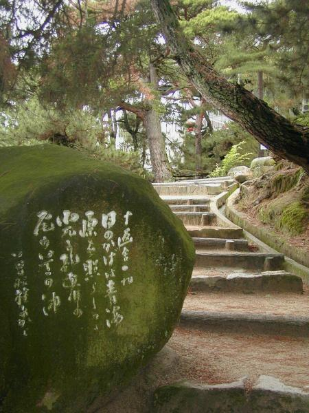 Path of Literature, Onomichi, Japan -- by jpatokal